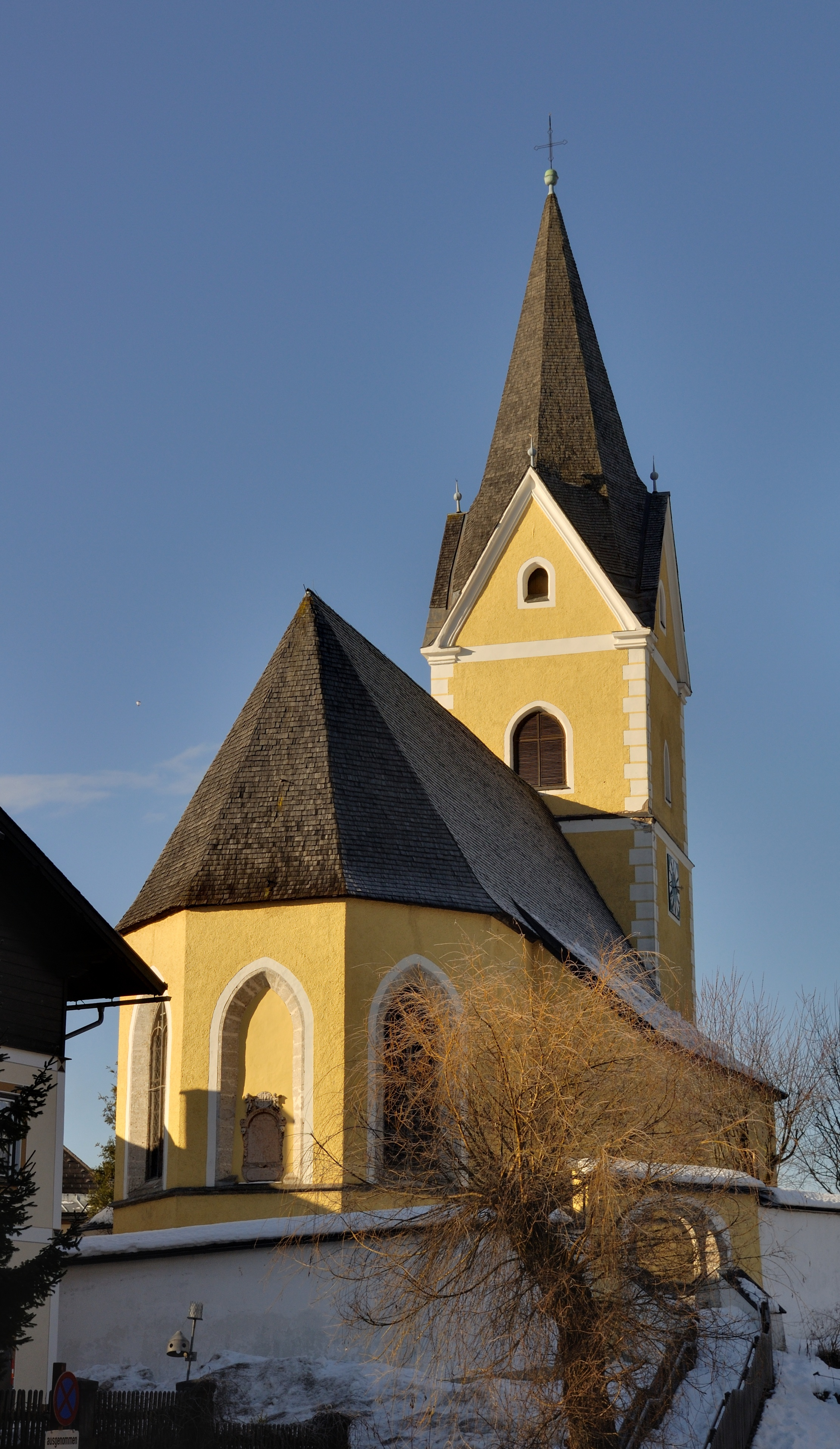 Bad Mitterndorf: Church Saint Margareta